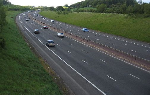 Crop of :Image:M40_in_Warwickshire.jpg